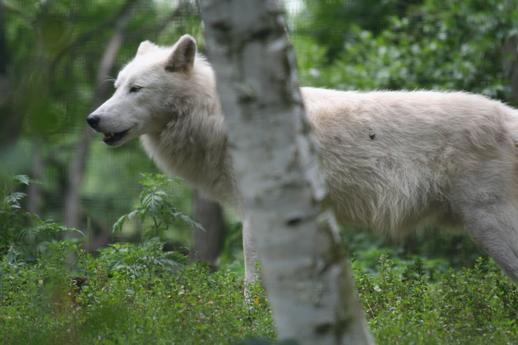 A watchful arctic wolf, taken at the Toronto Zoo. Taken with a Canon EOS 350D & 70-300mm f4-5.6 IS USM lens. – Ber'Zophus